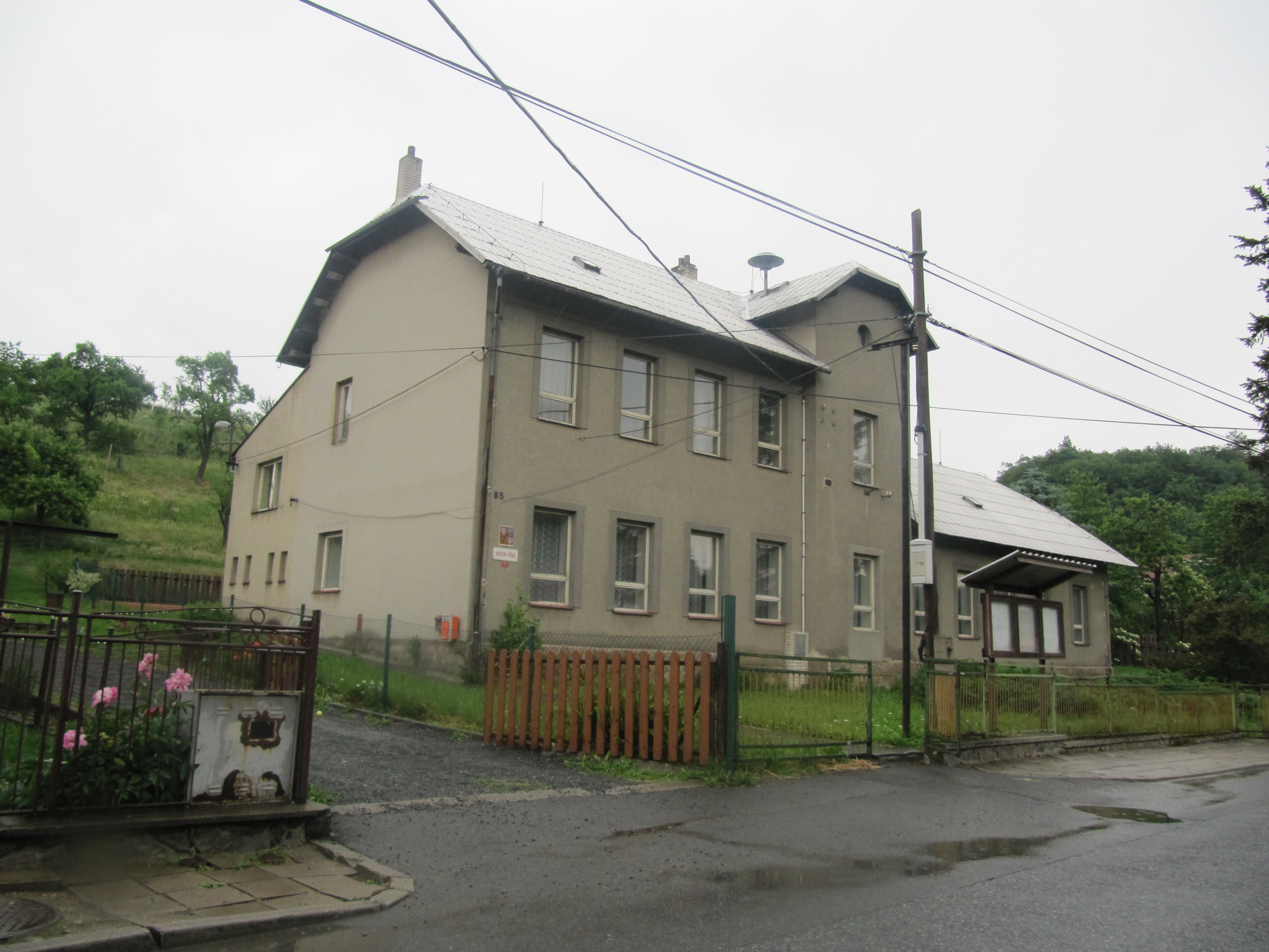 Vlčková in Zlín District, Czech Republic. Municipal office. This photograph was taken within the scope of the third year of the 'Czech Municipalities Photographs' grant.